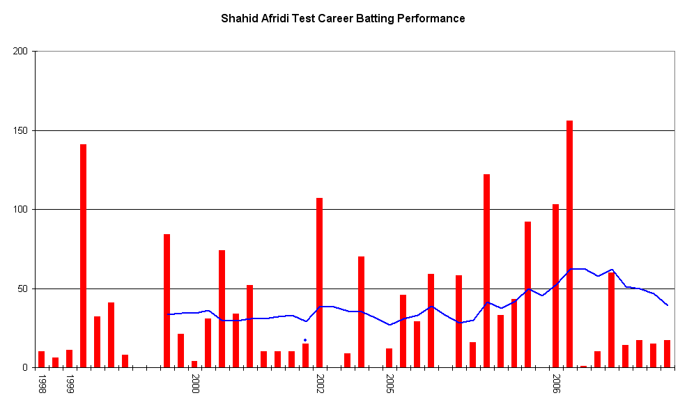 This graph details the Test Match performance of Shahid Afridi. It was created by Raven4x4x. The red bars indicate the player's test match innings, while the blue line shows the average of the ten most recent innings at that point. Note that this average cannot be calculated for the first nine innings. The blue dots indicate innings in which Afridi finished not-out. This graph was generated with Microsoft Excel 2002, using data from Cricinfo [1] and Howstat [2]. The information in this chart is current as of 30 December 2007.